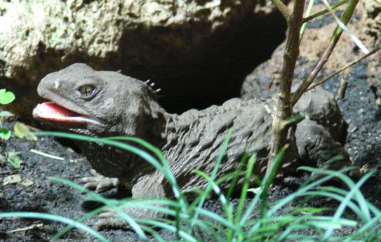 Sphenodon punctatus Autor: User:Haplochromis